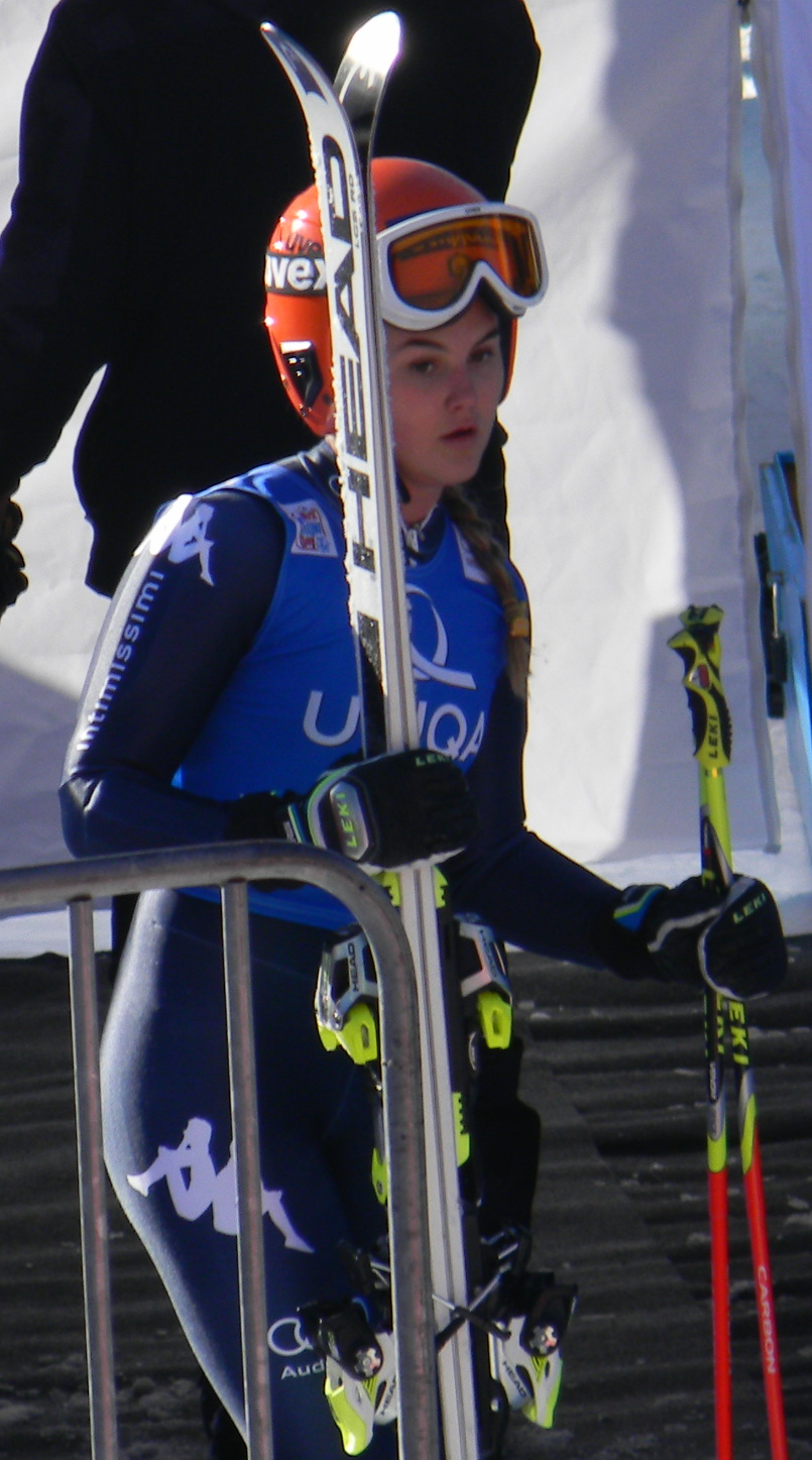 Laura Pirovano of Italy after the Audi FIS Alpine Ski World Cup Women's Giant Slalom on December 28, 2015 in Lienz, Austria